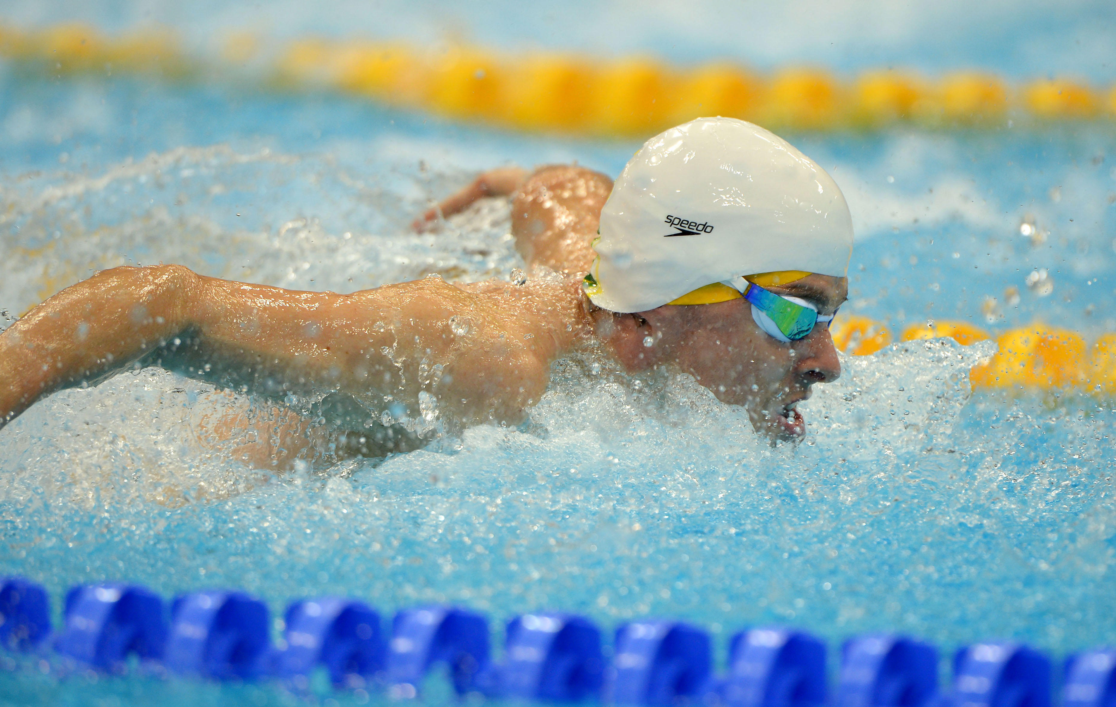 Photograph of Australian Paralympic team member Matt Levy at the 2012 Summer Paralympic Games in London